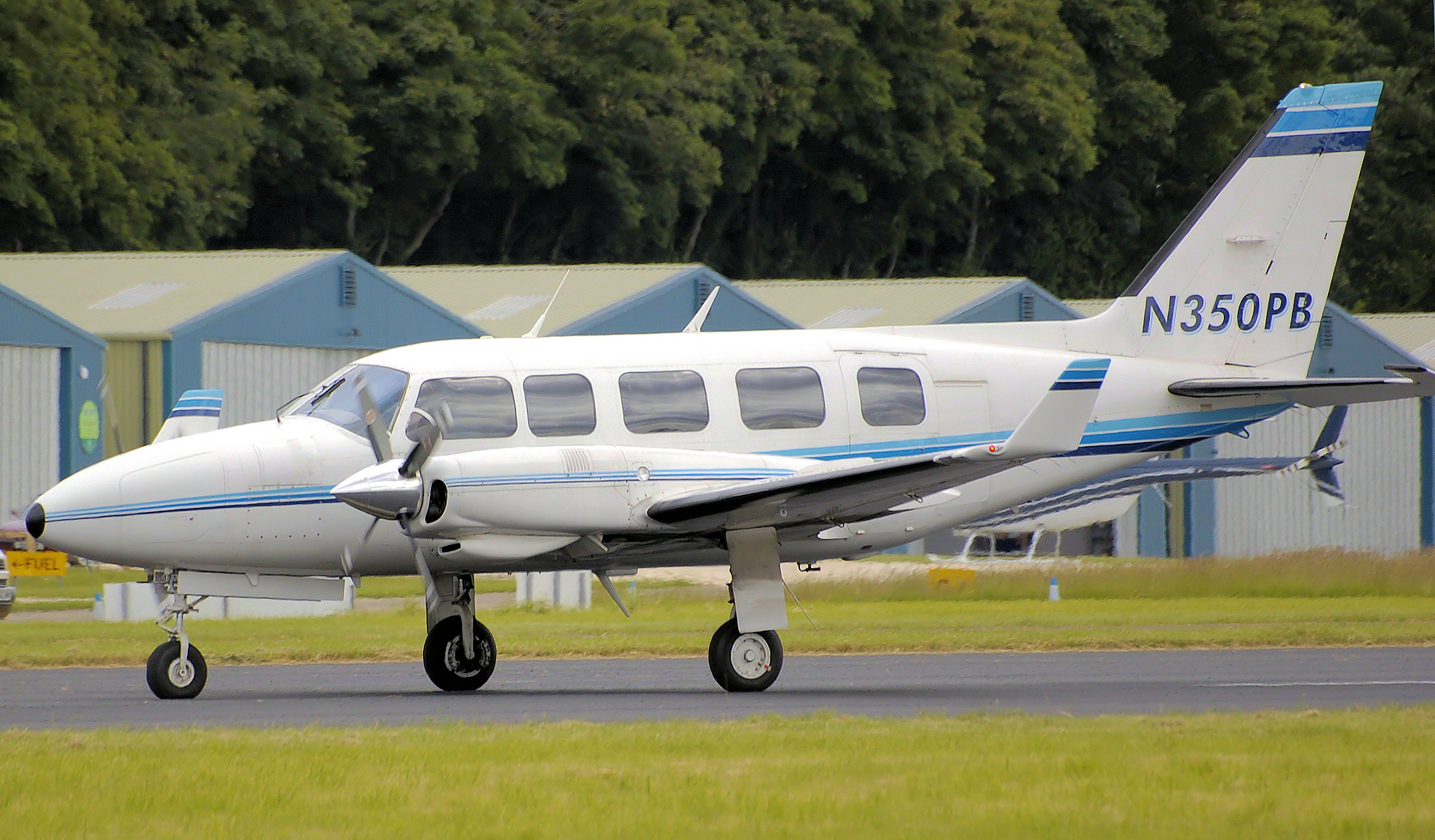 Piper PA-31-350 Navajo Chieftain (N350PB) at Kemble Air Day 2008, Kemble Airport, Gloucestershire, England. Built 1982. I did not note if this aircraft was landing or taking off.